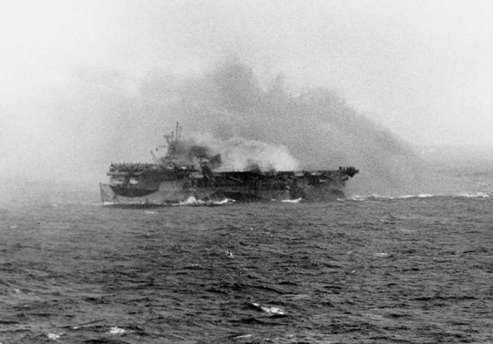 The U.S. Navy light aircraft carrier USS Princeton (CVL-23) burning, but still underway, about twenty minutes after she was hit. The carrier had been hit by a bomb from a Japanese D4Y dive bomber at 0938 hrs on 24 October 1944.